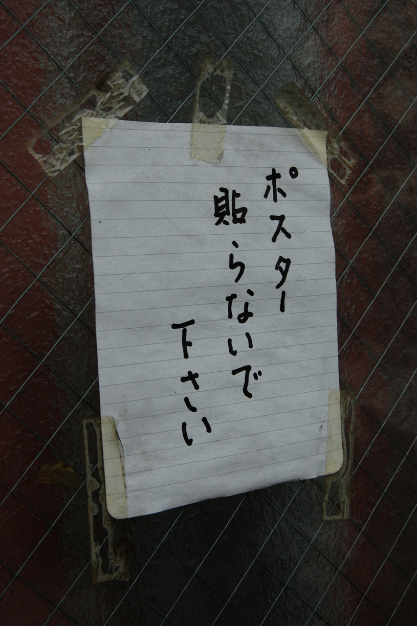 The poster of the meaning "do not stick a poster".